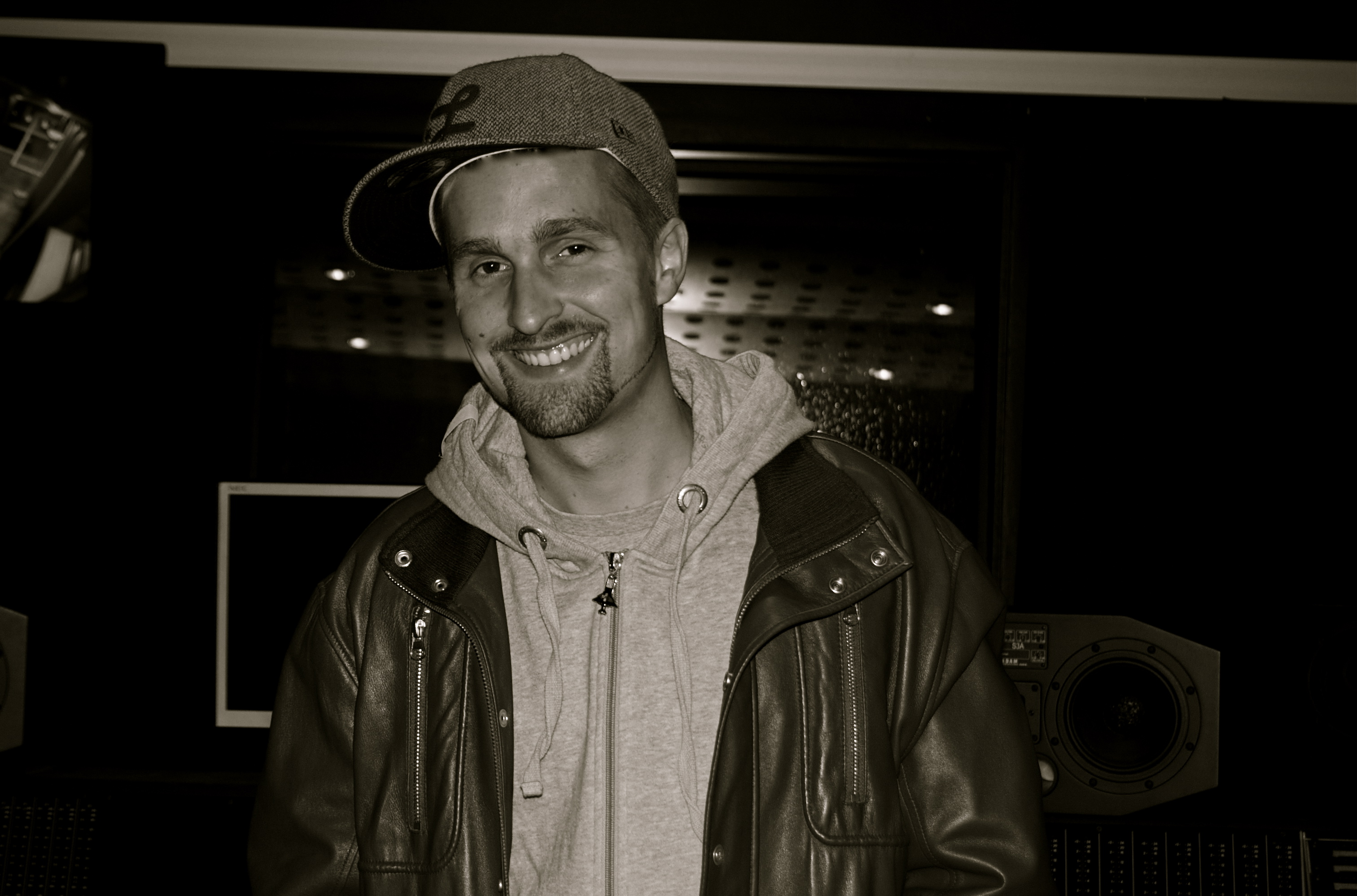 7inch berlin produzent producer